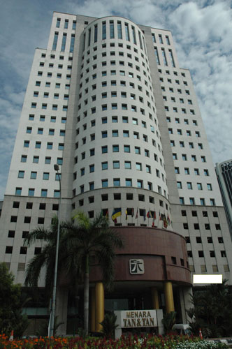 Menara Tan & Tan